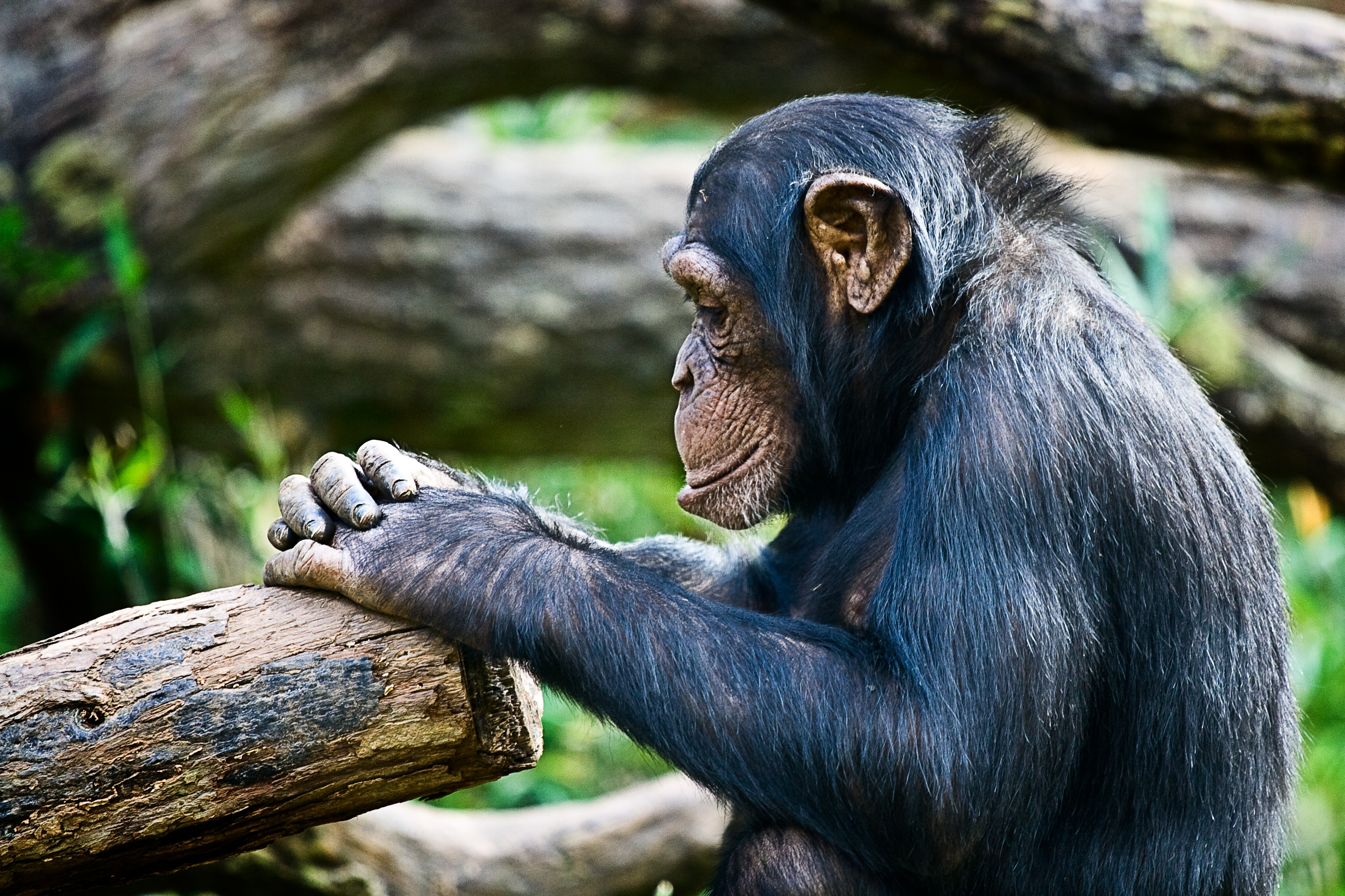 A chimpanzee appears deep in thought (or pray) at the NC Zoo.